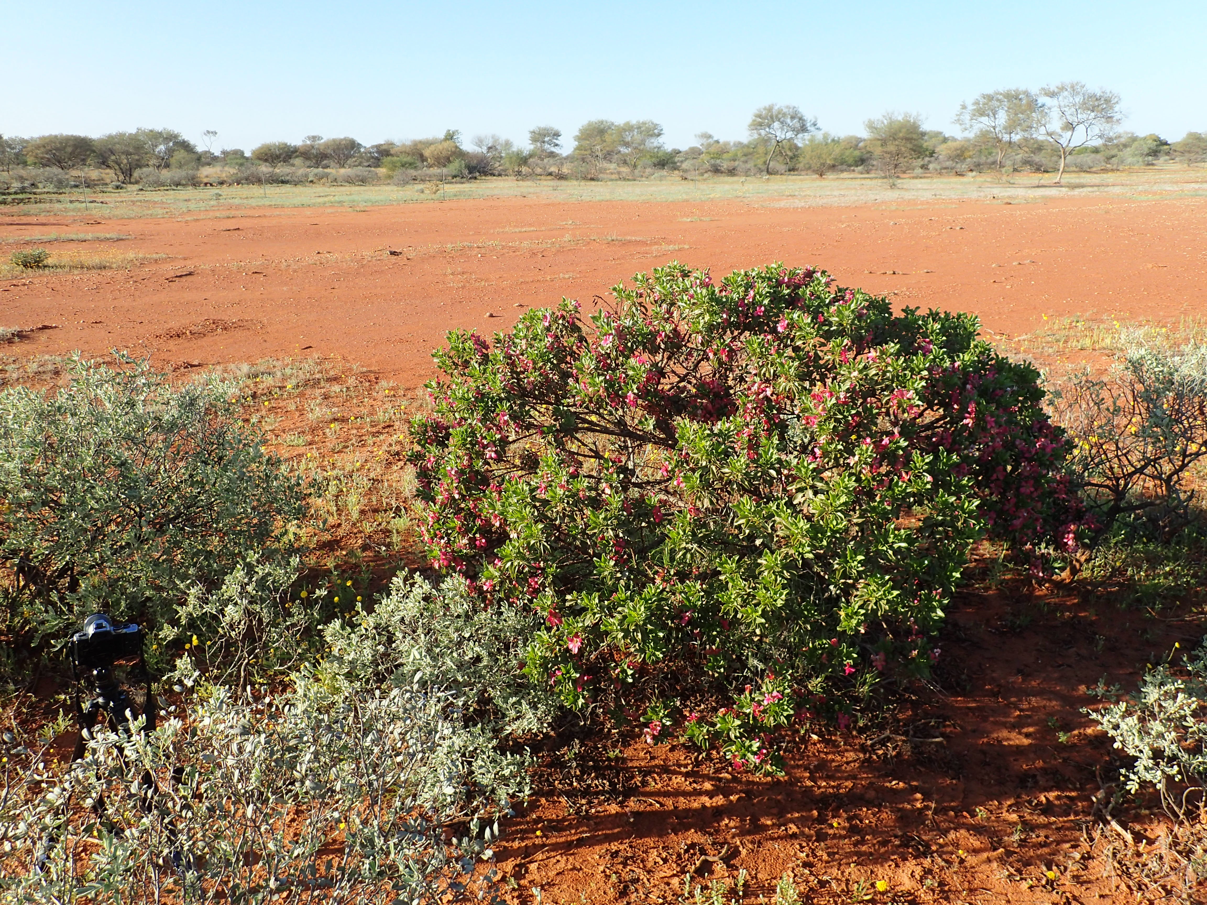 Eremophila fraseri parva growing near the "Bidgemia" turnoff near Gascoyne Junction